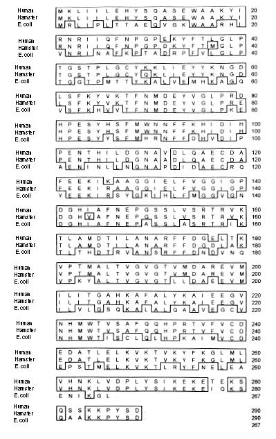 Similiraty in sequence of 3 species.